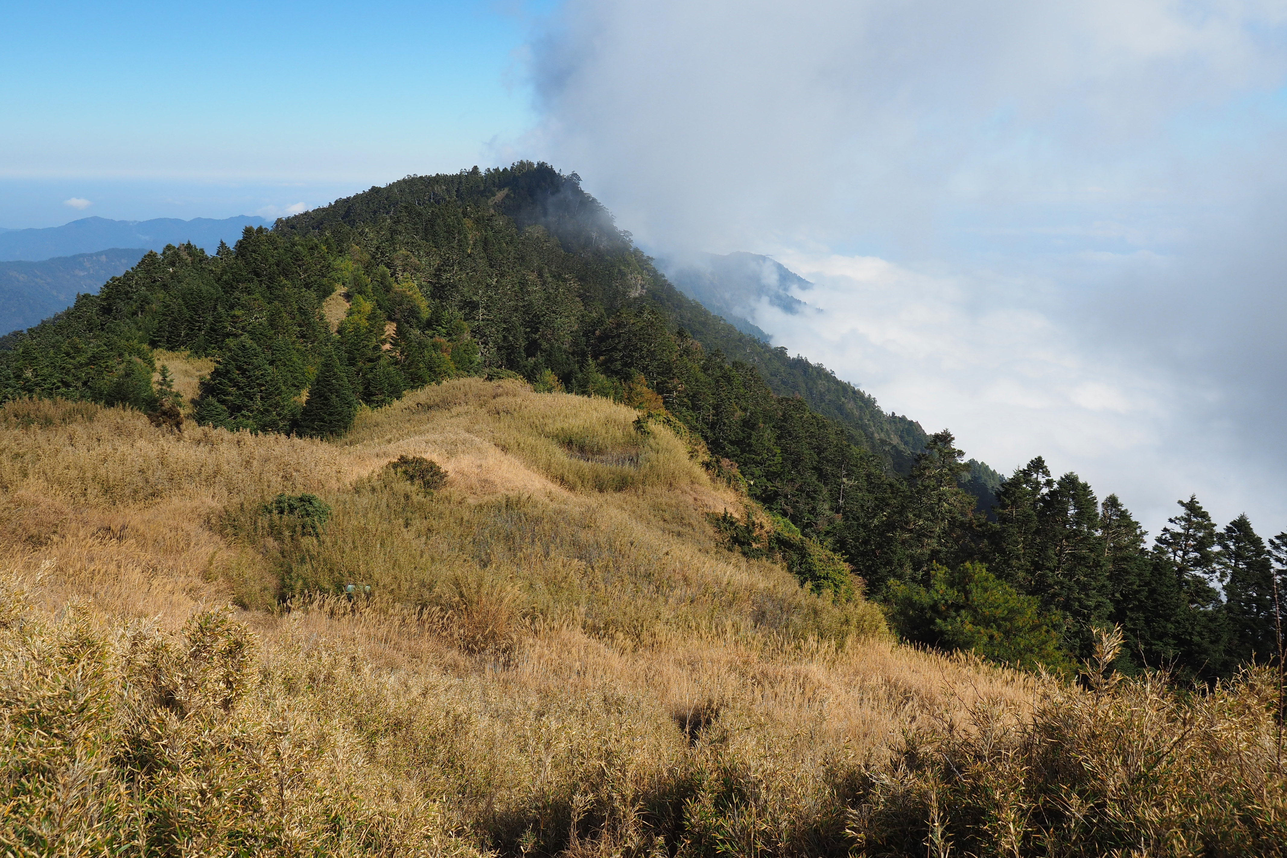 Mt.Kalaye (Kalayeshan, 3133m) 中文（台灣）: 台灣百岳，喀拉業山